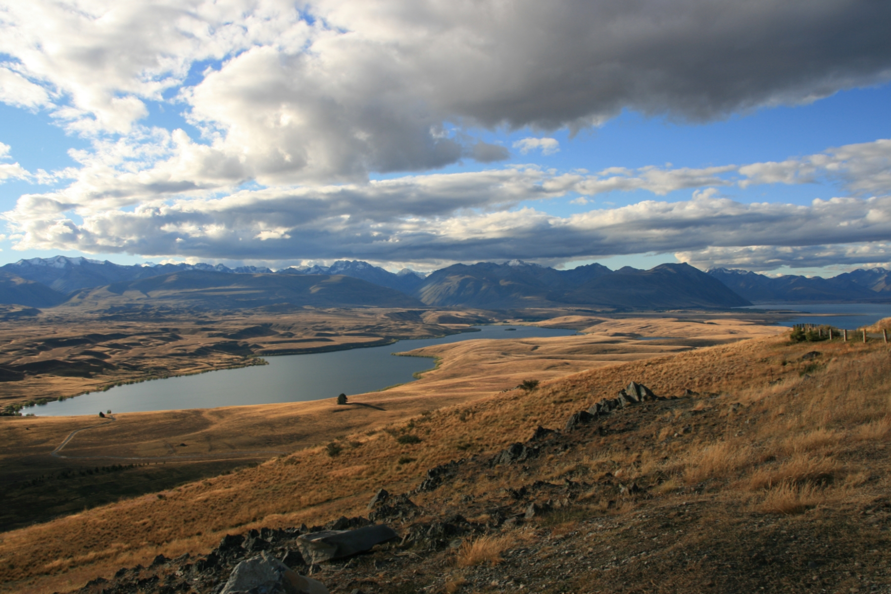 Lake Tekapo and Lake Alexandrina to the northwest of it in the Mackenzie Basin, New Zealand. Coordinates approximate, might be up to several 100s of meters off.